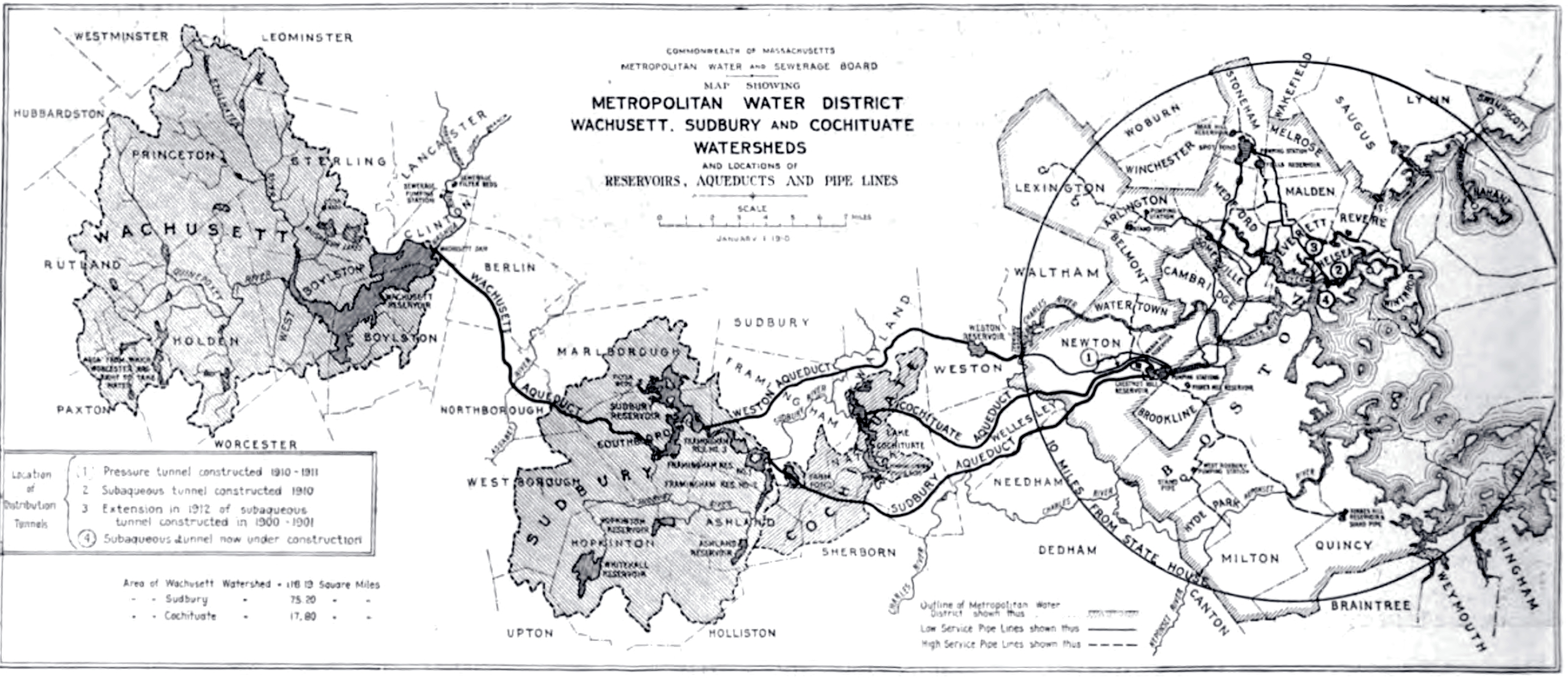 1910 map of the Metropolitan Water District system, Metropolitan Water & Sewage Board (Boston area), Commonwealth of Massachusetts, USA.